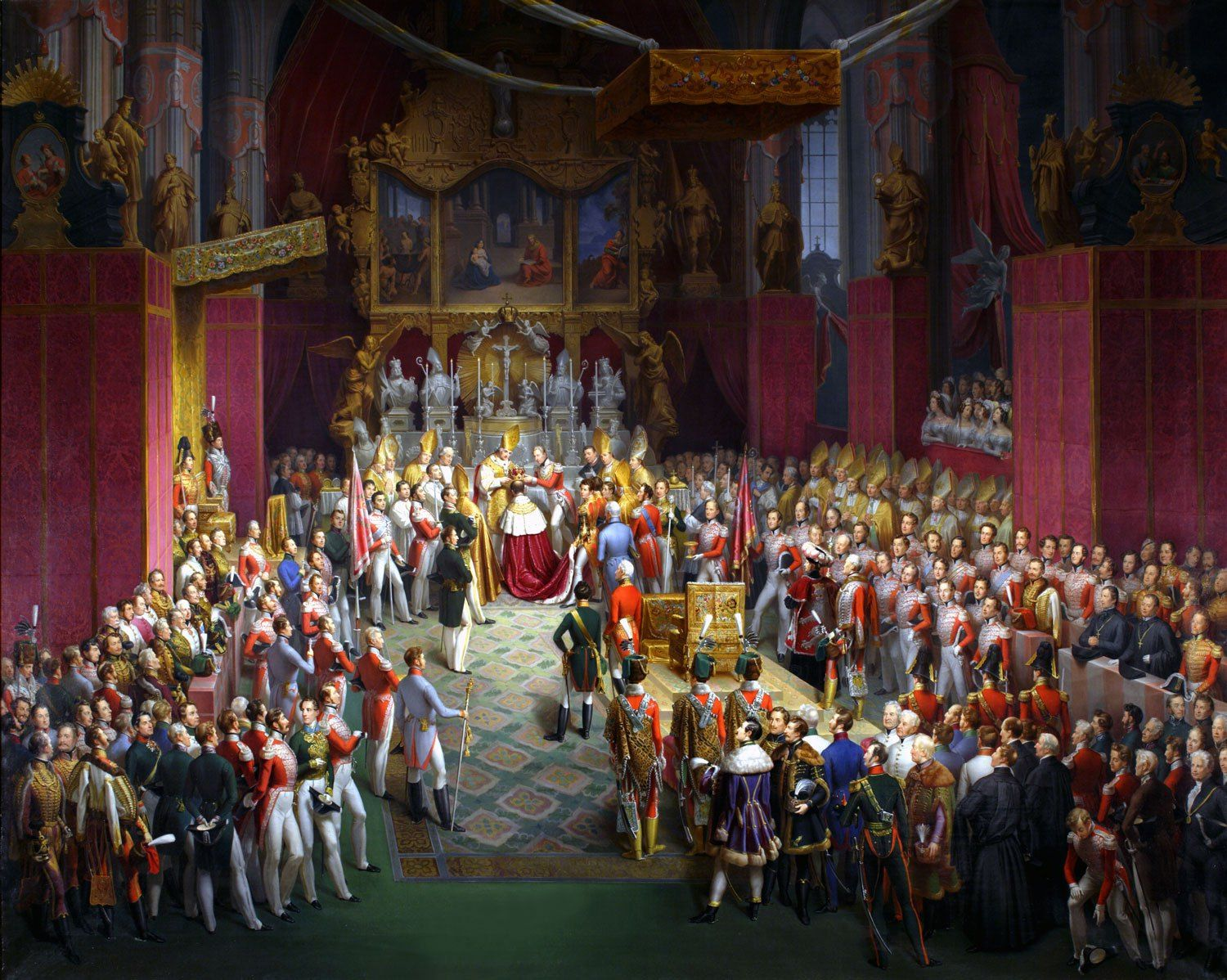 Detail of painting of the Coronation of Ferdinand I of Austria in St. Vitus Cathedral, 7th September 1836. Painted by Leopold Bucher in Vienna in 1847, oil on canvas. Collections of Prague Castle